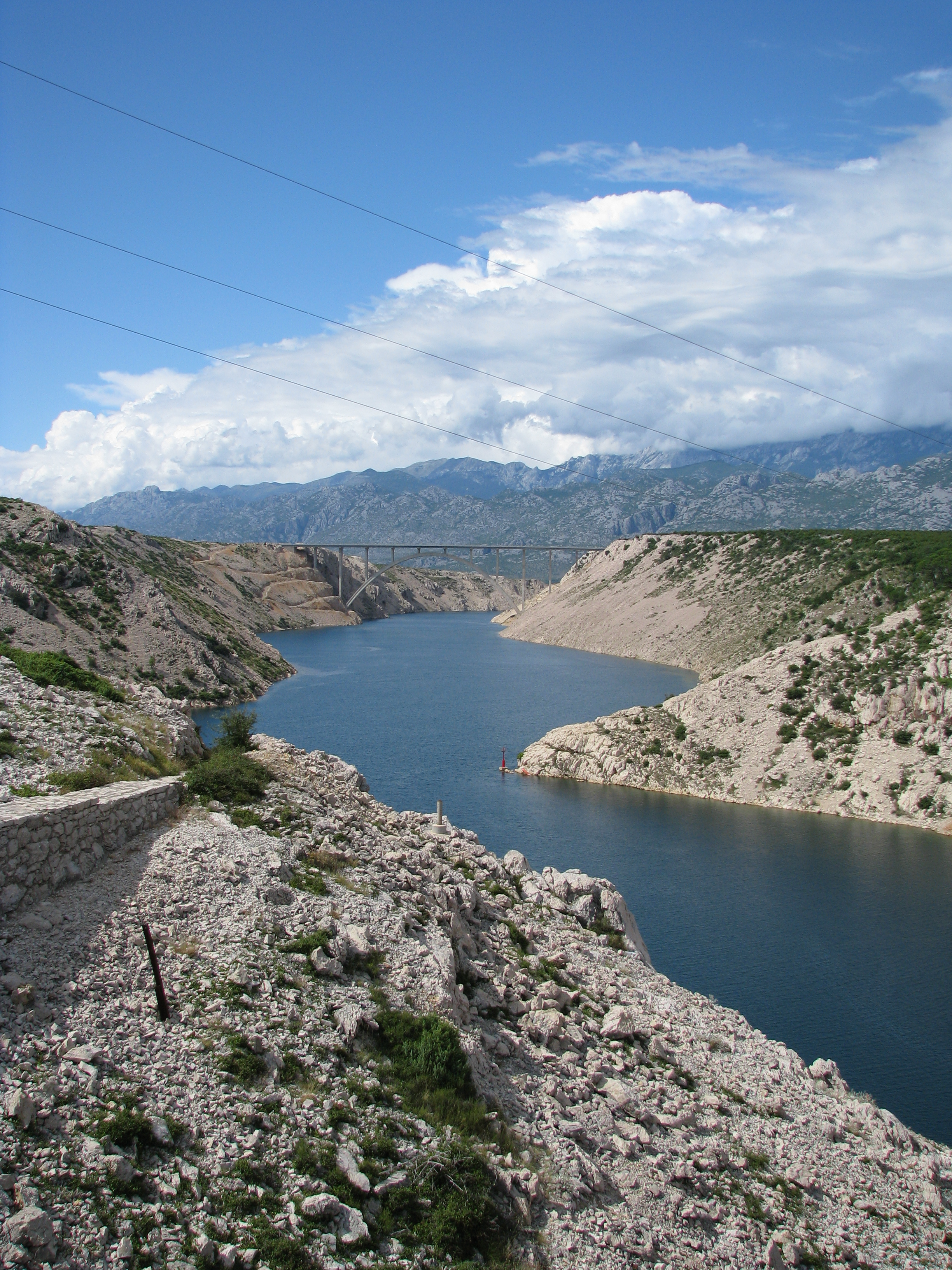 Novsko ždrilo and New Maslenica Bridge (A1 highway)